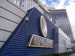 Star Trek: The Experience. This sign as pictured is now largely obscured by the Las Vegas Monorail, which runs alongside the building.